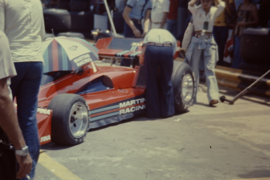 Some old pictures scanned from negatives. 77 Interlagos